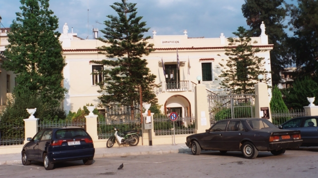 Modern Argos Town Hall